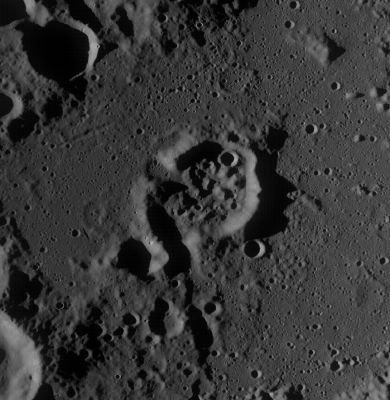 Crater Burnham at LROC image WAC No. M11746669ME